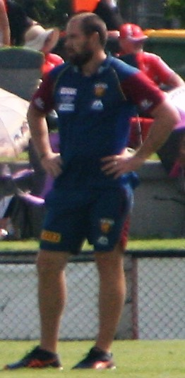 Ben Hudson before a game between the Brisbane Lions and Sydney in the 2018 JLT Community Series